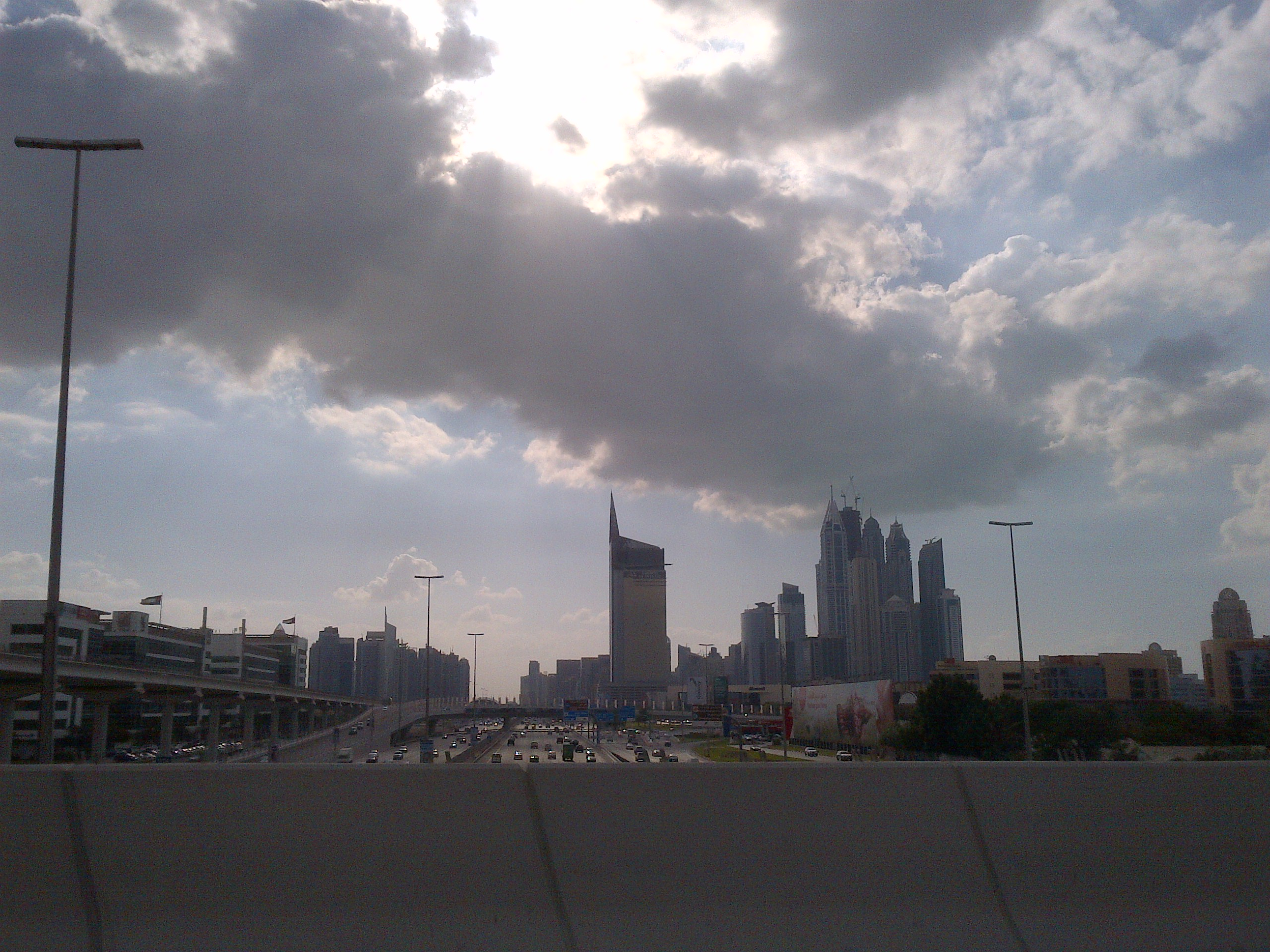 Dubai on a cloudy day with the media city, JBR, and JLT skyline in the distance